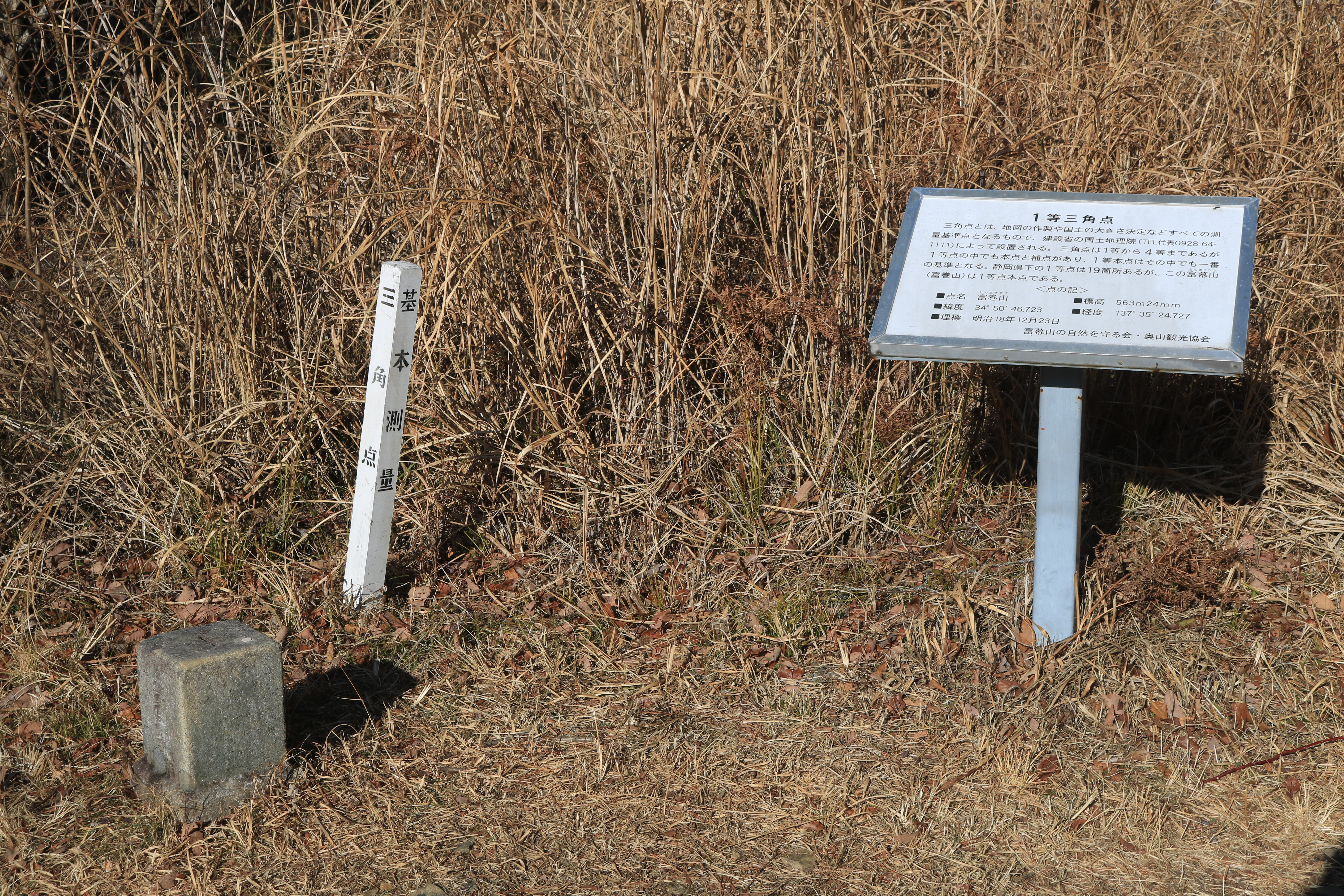 Trig points on the peak of Mount Tonmaku in Yumihari Mountains, Kita-ku, Hamamatsu, Shizuoka Prefecture and Shinshiro, Aichi Prefecture, Japan.